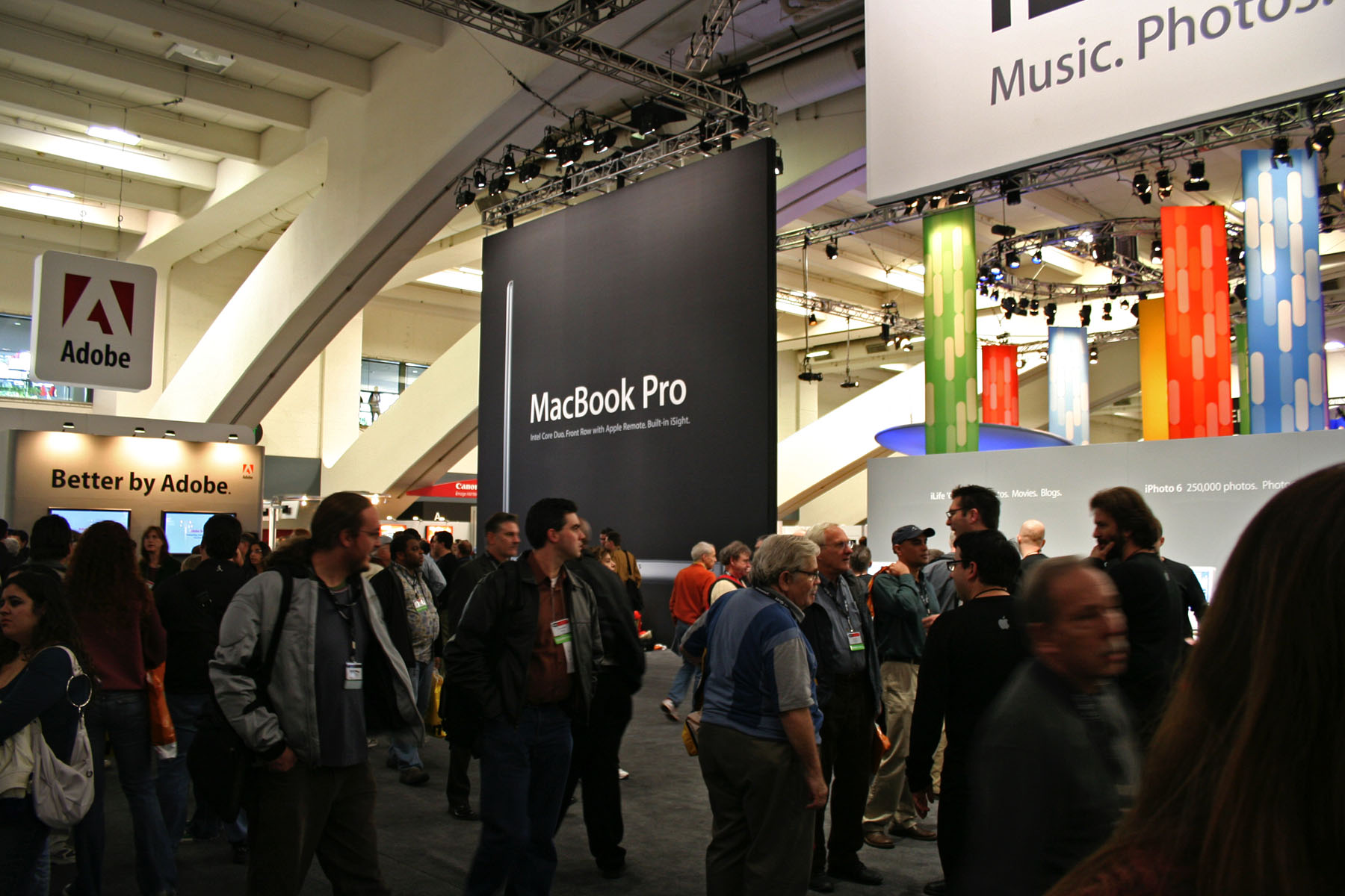 Attendees at Macworld Expo 2006 in the Moscone Center, taken by Scott Stevenson.